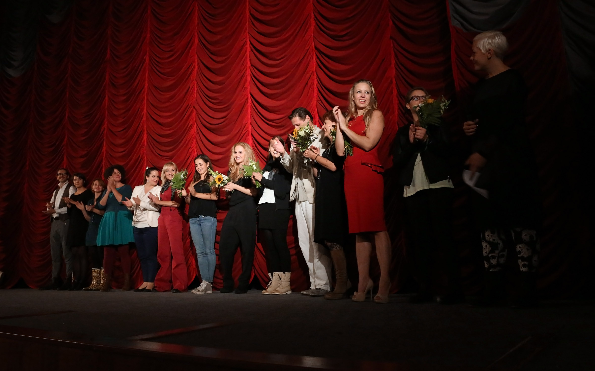 Cast and crew at the Viennese premiere of the film Talea at Gartenbaukino.